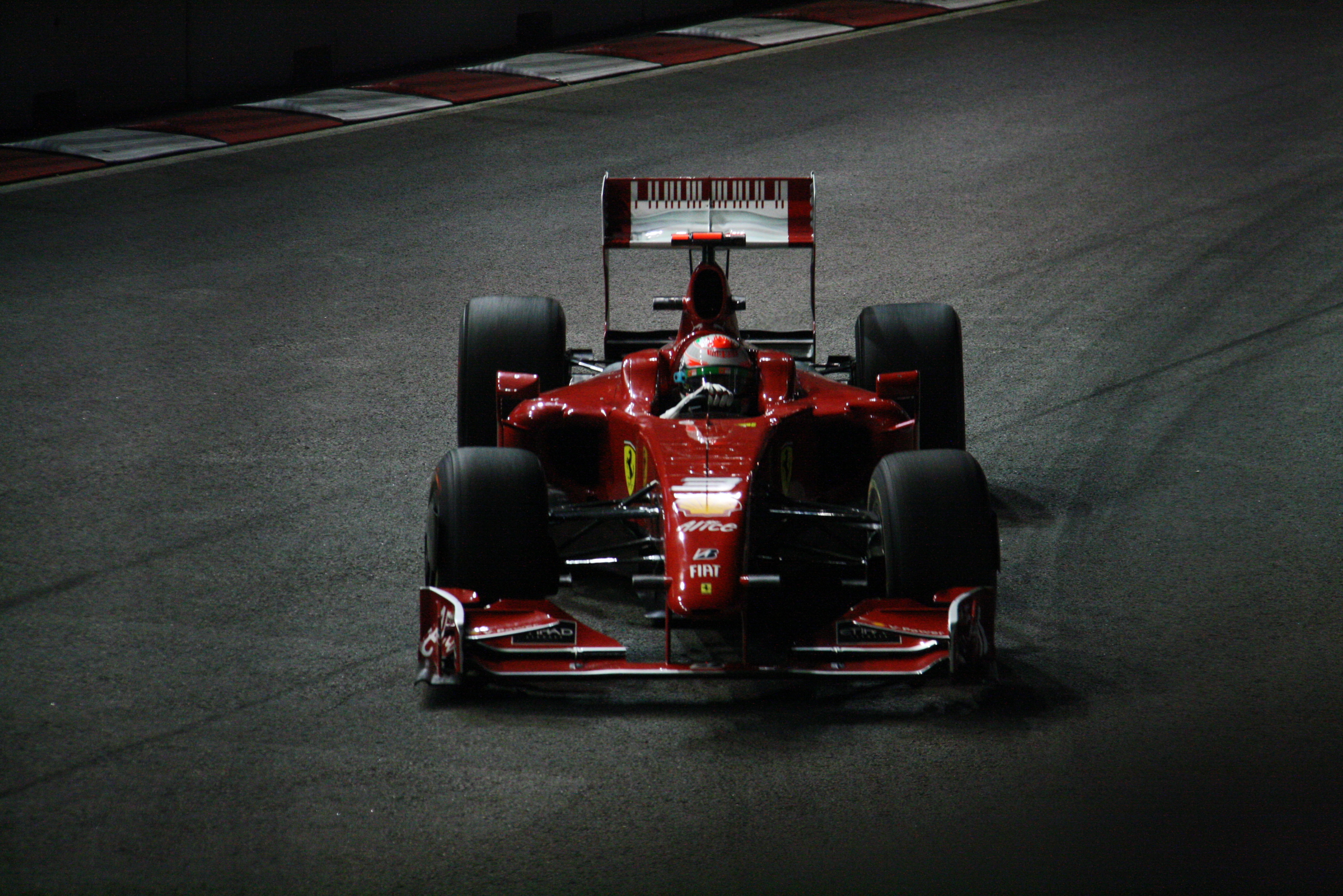 Giancarlo Fisichella driving for Scuderia Ferrari at the 2009 Singapore Grand Prix.